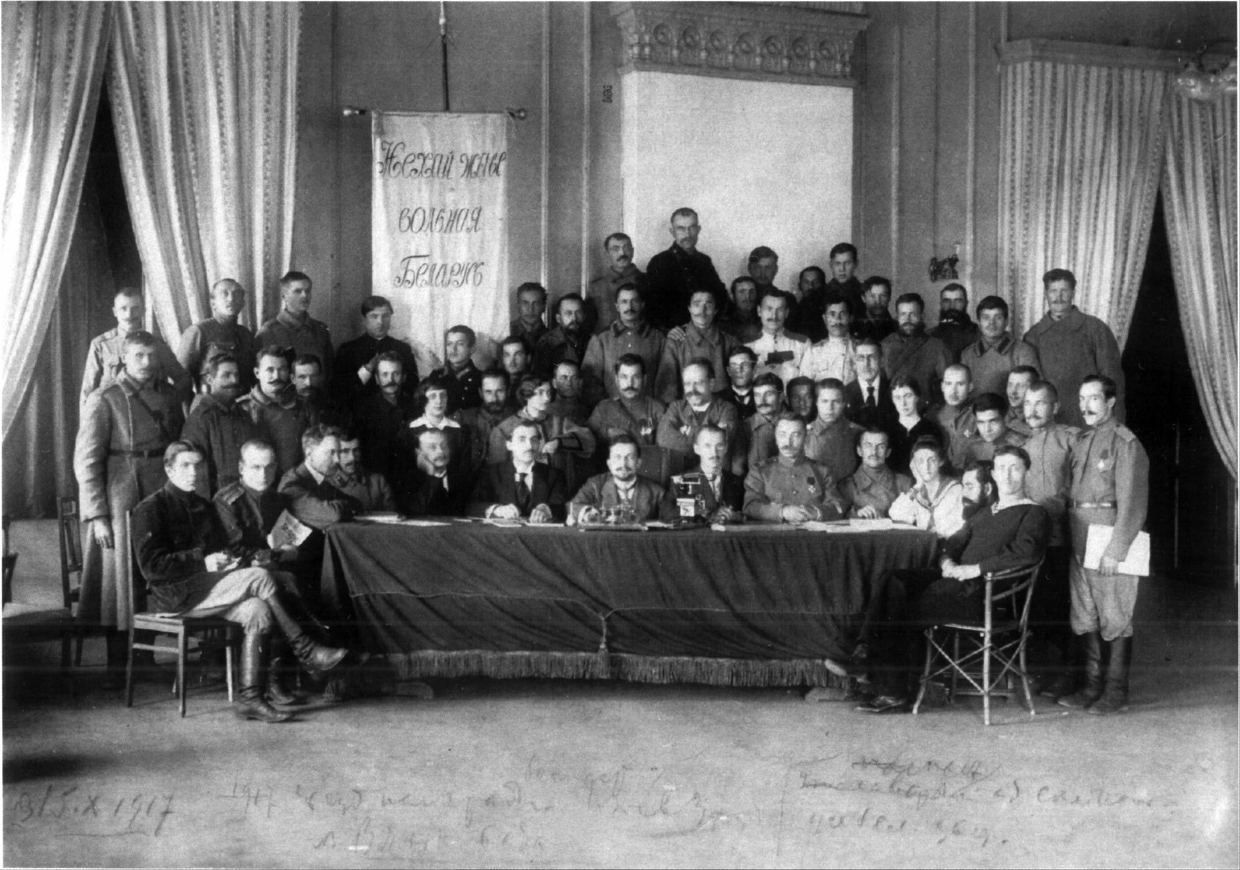 2nd session of the Central Council of Belarusian organizations (15 (28) October 1917, Minsk).